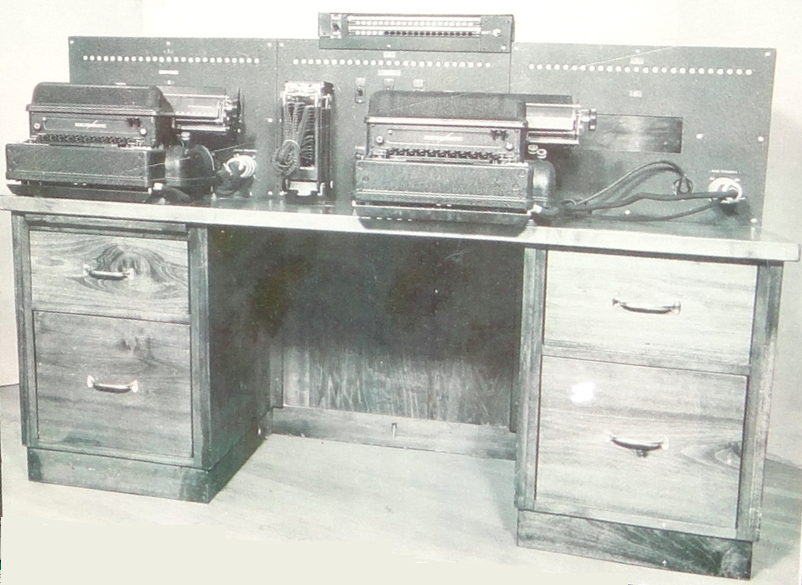 Analog of the Japanese Type B Cipher Machine (PURPLE) built by the U.S. Army Signal Intelligence Service during World War II. Photograph on display at the National Cryptographic Museum.